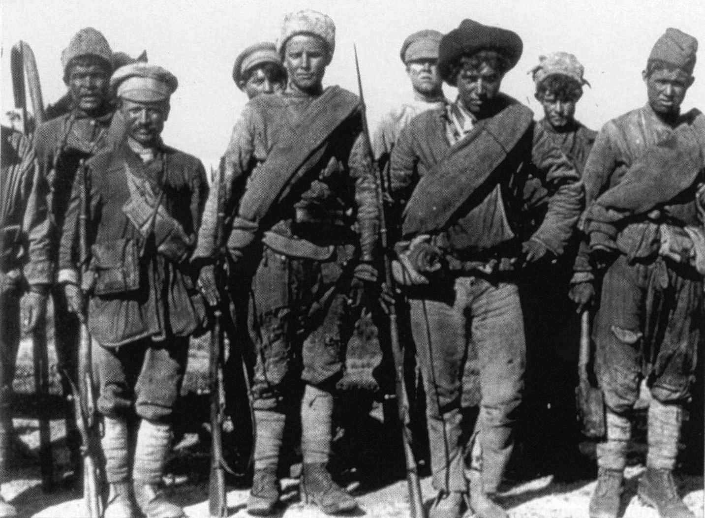 Kolchak armies (uniforms)